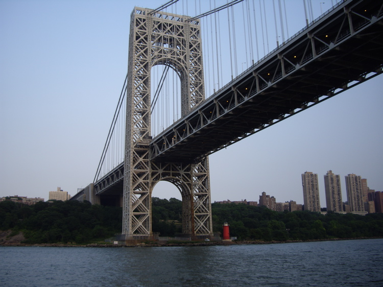 Little Red Lighthouse and Great Grey Bridge